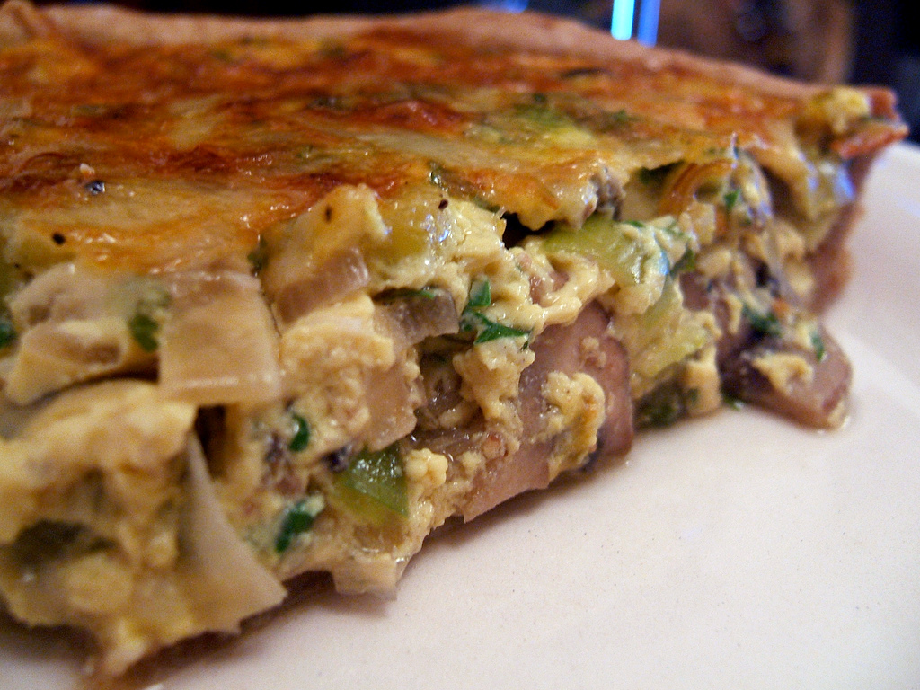 Mushroom and leek quiche with Emmentaler cheese.